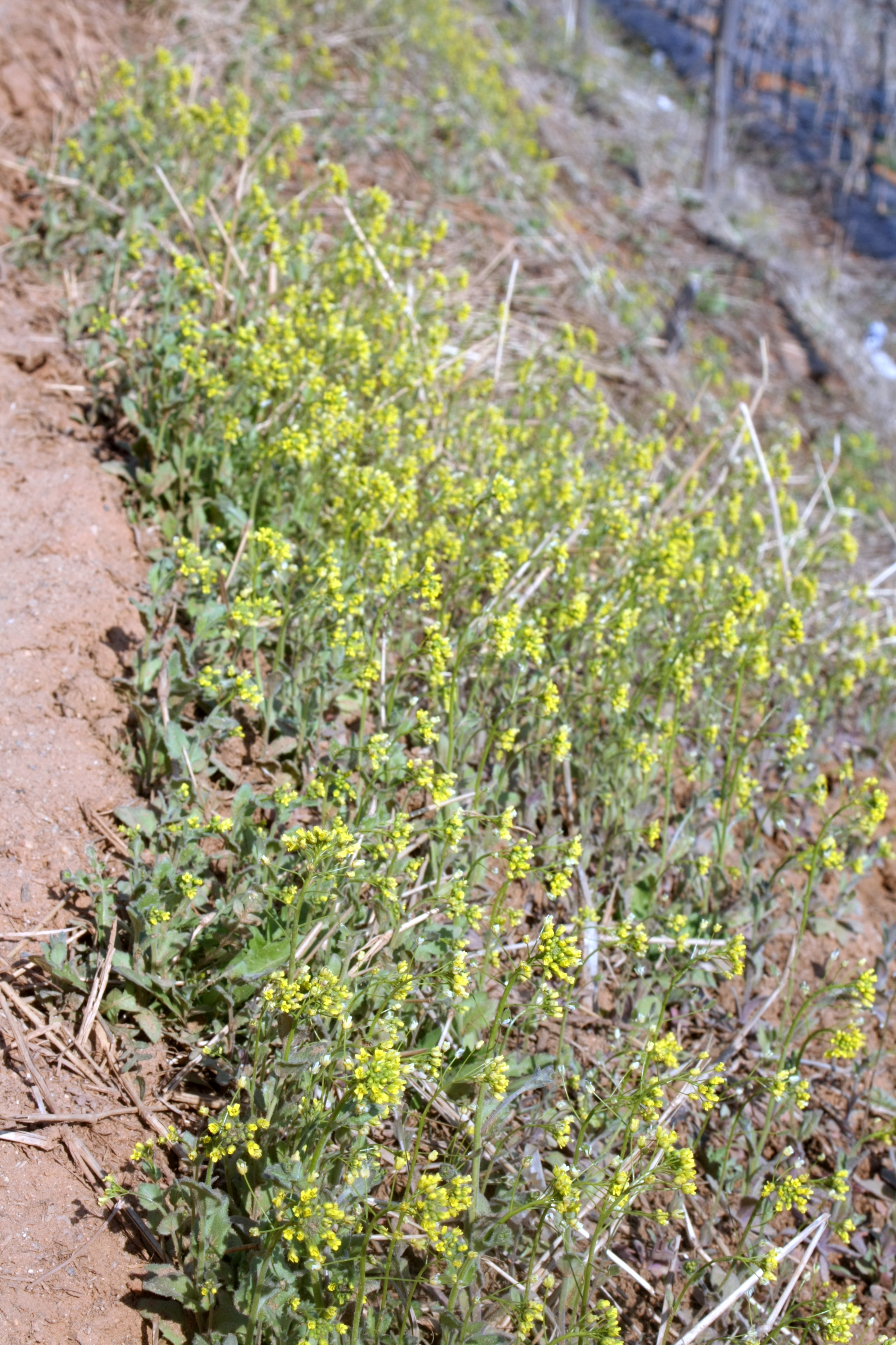 Draba nemorosa in Incheon, Korea